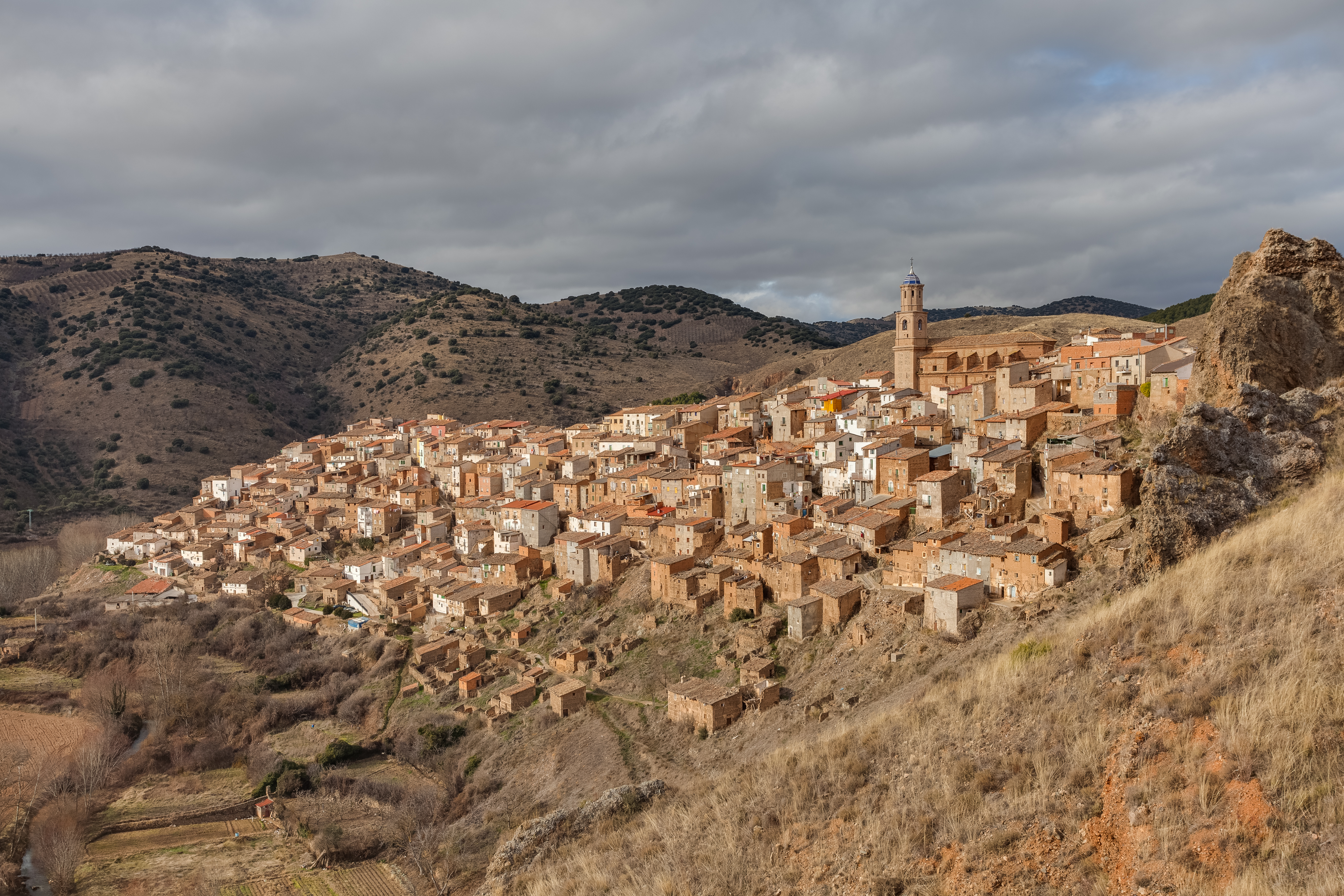 View of the small village of Moros, province of Zaragoza, Aragón, Spain. The whole village of Moros lies on a hill, with the most relevant buildings in the top (church and former town hall), the residences in the middle and the sheep pens at the bottom. The current population of Moros is 441 people (35% of the population one century ago, that's why many houses are abandoned).